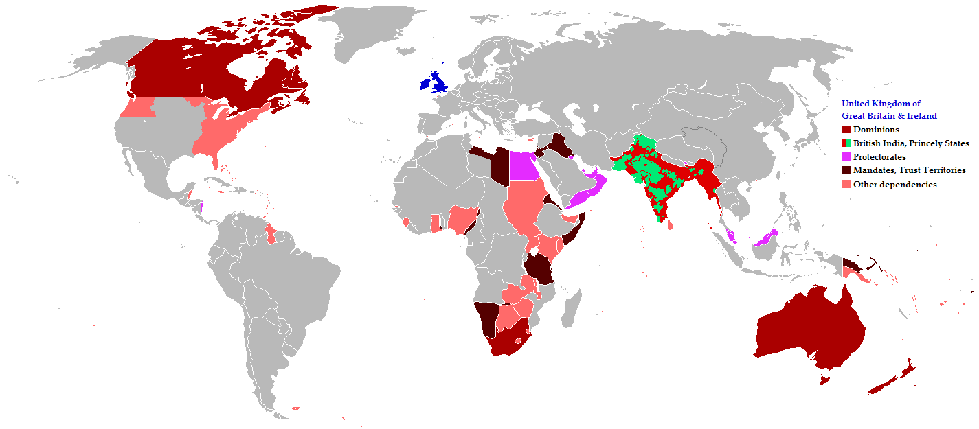 An anachronous map of all the official territorial claims of the British Empire that it ever held which identifies what type of holding was present on all possessions during their territorial, historical, and/or geographical peak. (Do keep in mind that Oregon Territory was shared with the United States and that some do not consider the Trust Territories captured from Italian colonial rule to be part of the empire).